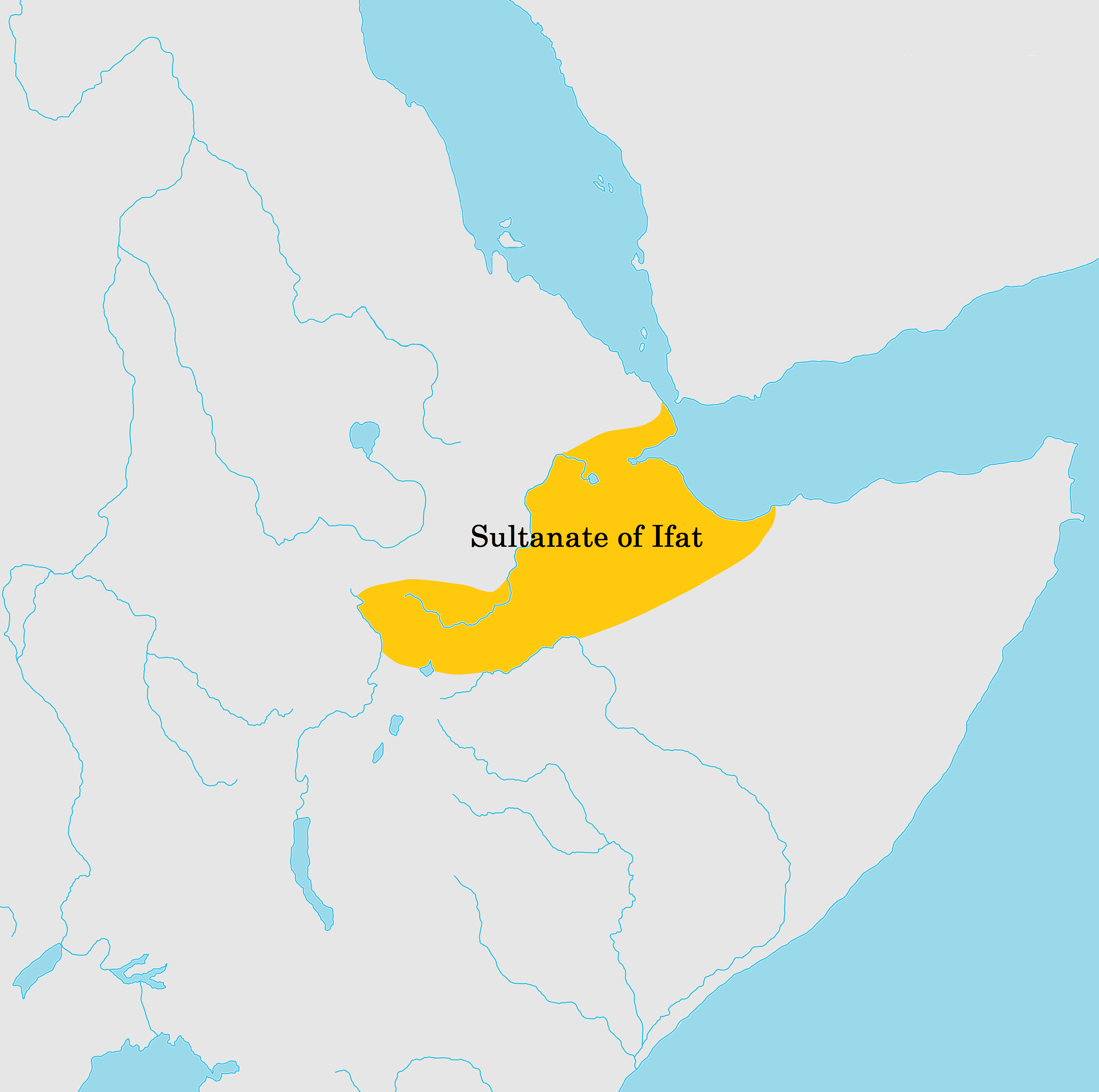 The Sultanate of Ifat at its height.